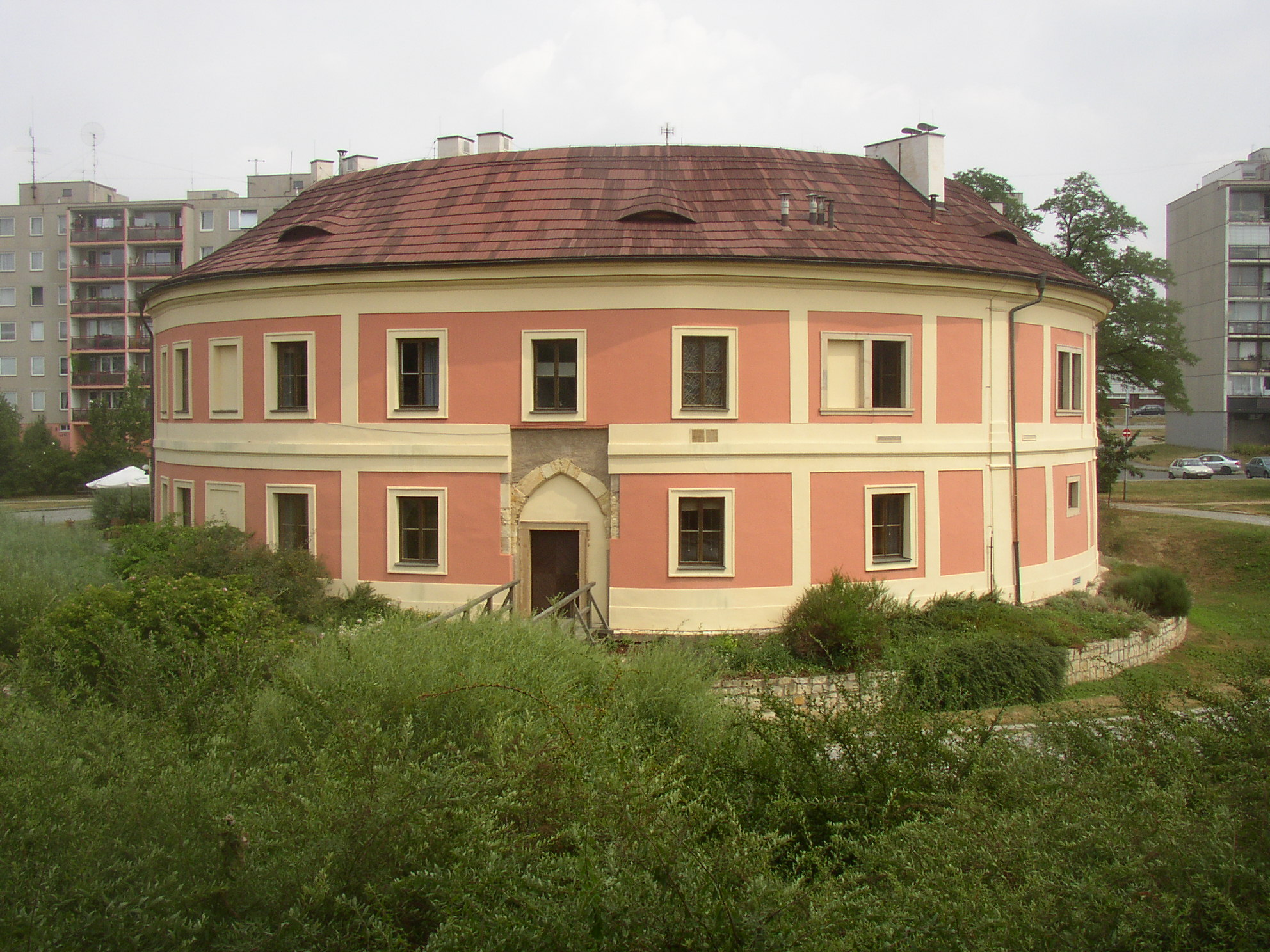 Chodov Fort in Prague-Chodov, Czech Republic). A view from west.